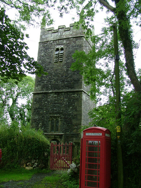 Otterham Church. 13th Century church dedicated to the French saint St Denis although no-one seems to know why. The tower was rebuilt in 1792 and the church had a major restoration in 1890.